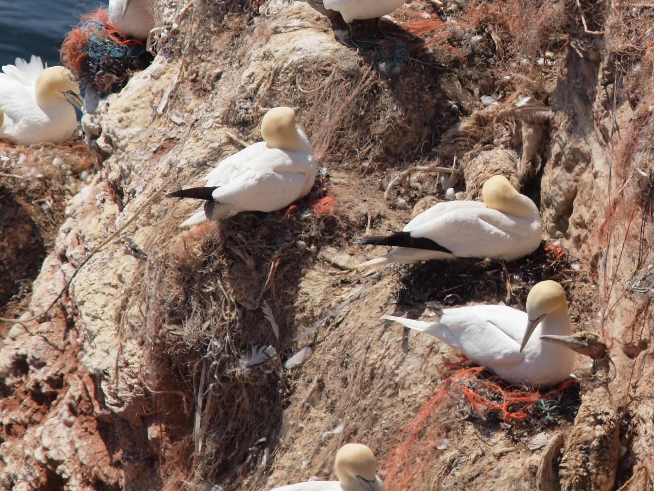 Northern gannet (Morus bassanus) on Helgoland, trapped in their own nests, build only of old nets and other plastic waste.